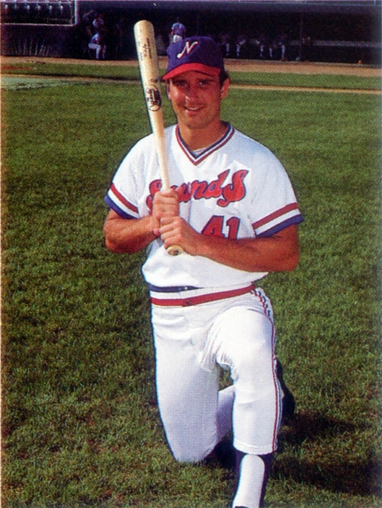 First baseman Mike Laga of the 1985 Nashville Sounds Minor League Baseball team of the American Association